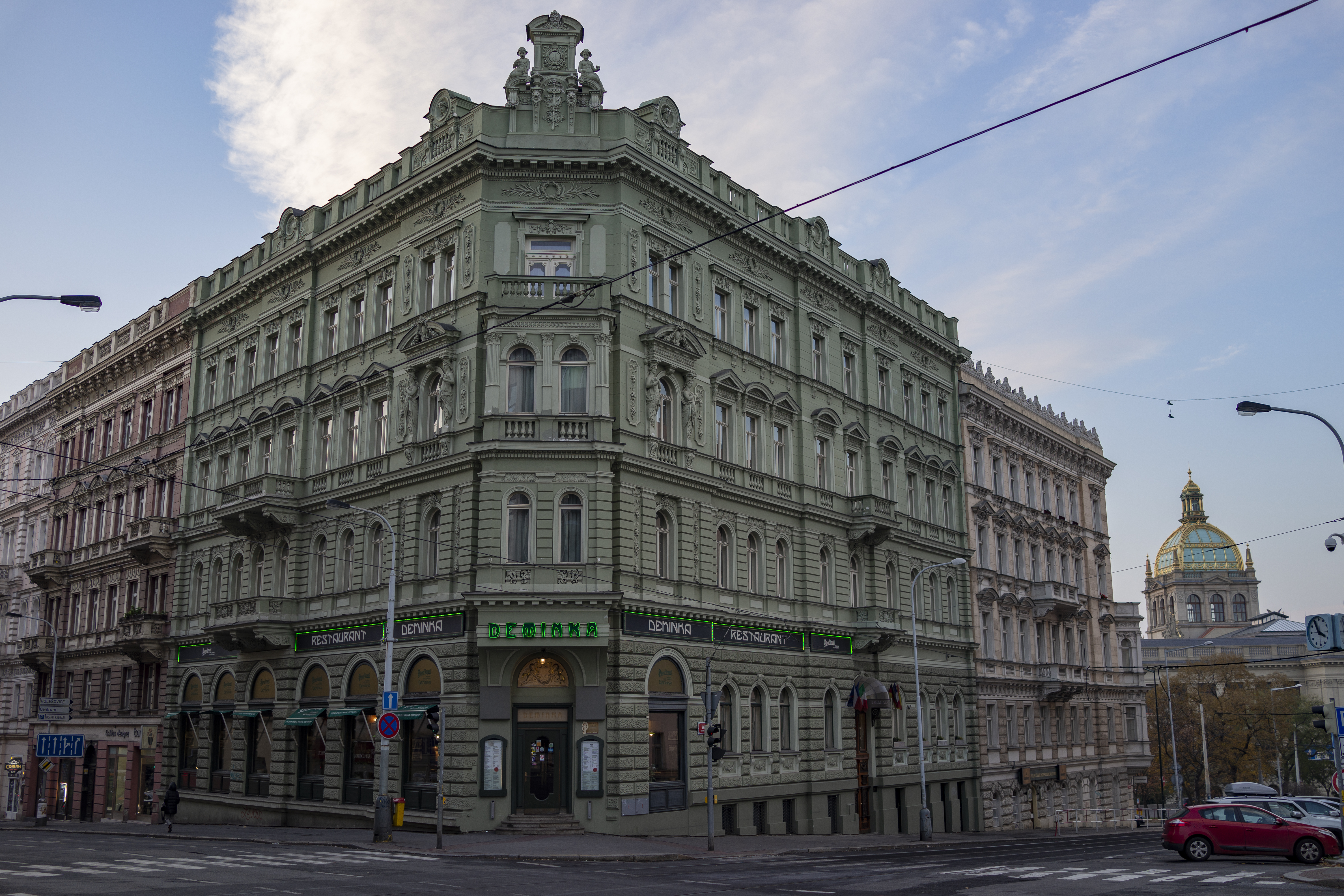 Famous Prague cafe and restaurant Deminka.